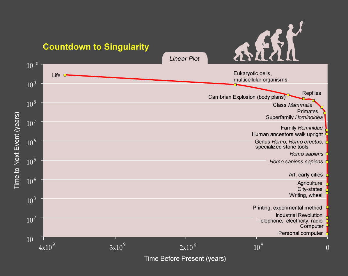 Countdown to Singularity, linear scale.